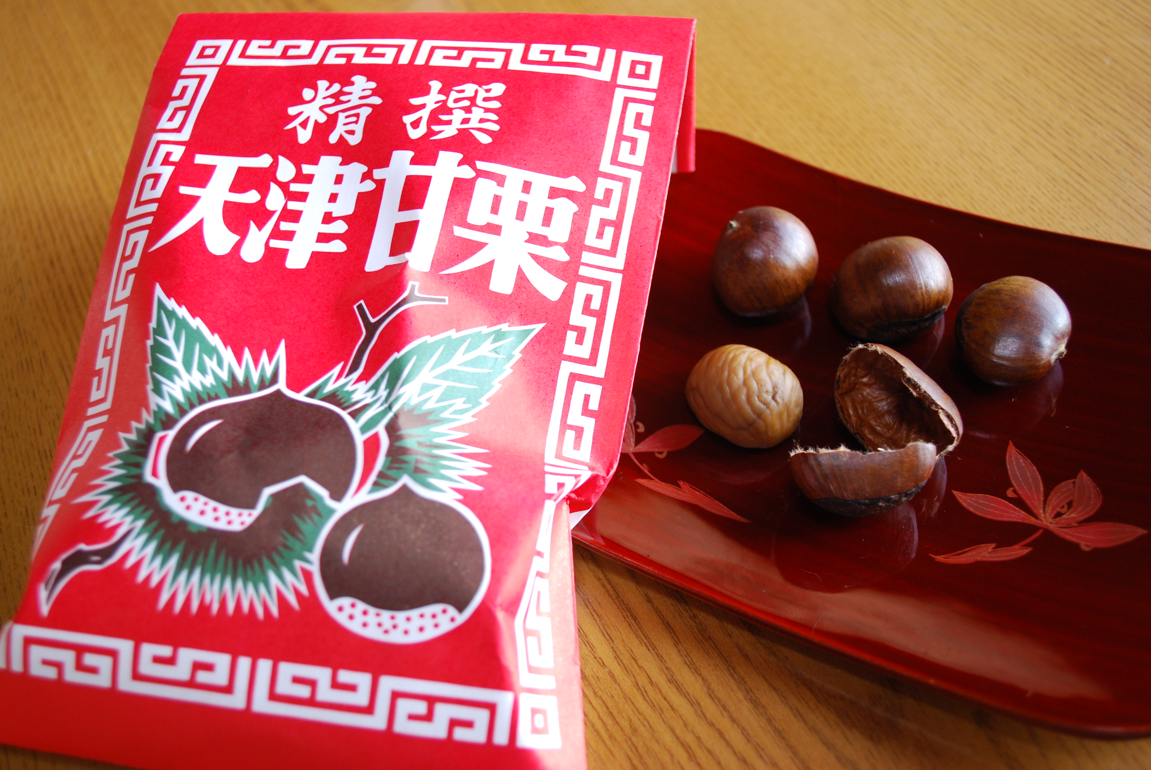 Chinese Chestnut,Tenshin-amaguri,Katori-city,Japan